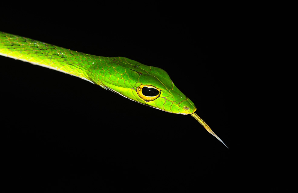 Malayan Green Whip Snake from Singapore